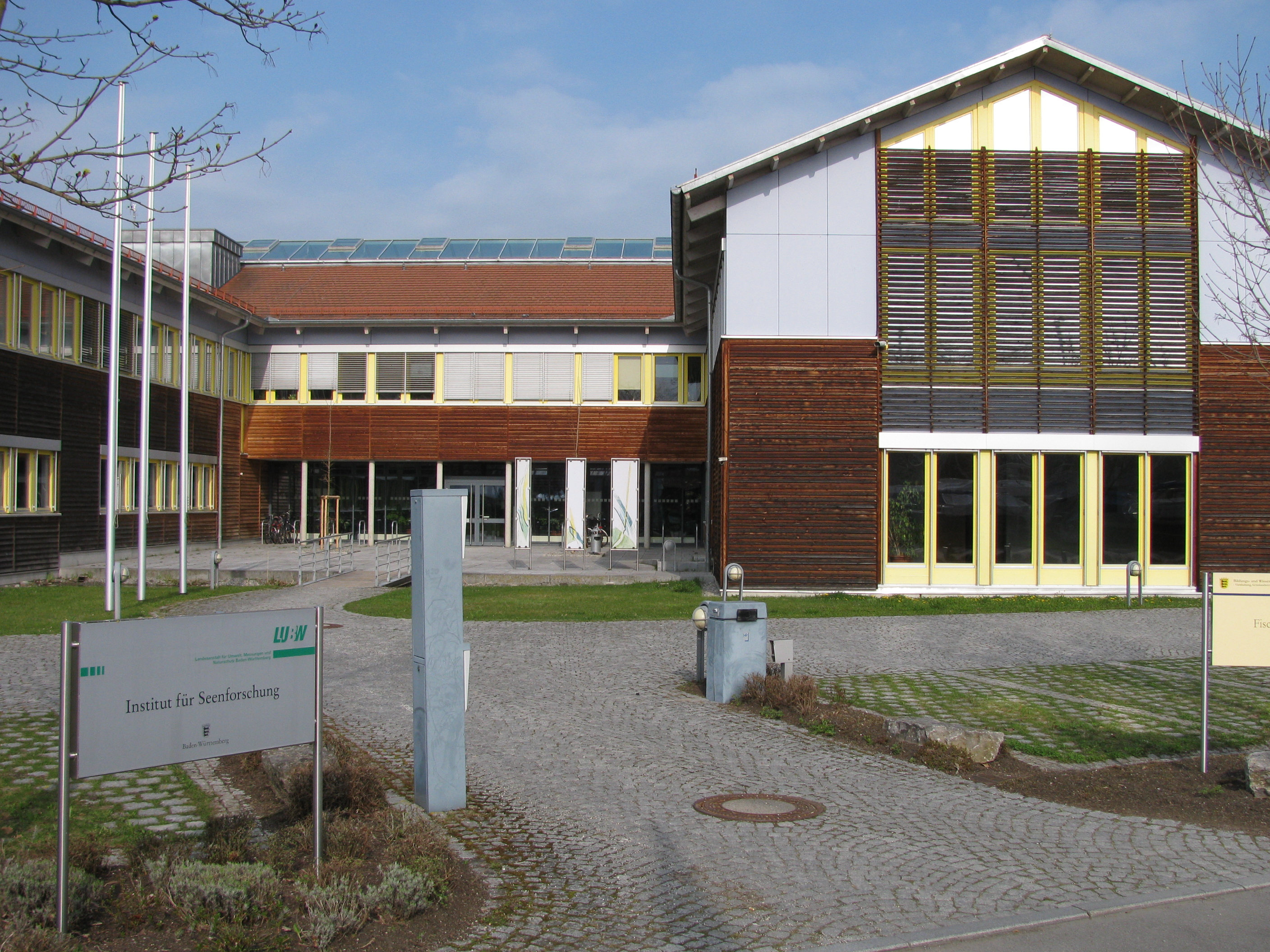 Germany - Baden-Württemberg - Bodenseekreis - Langenargen: Institut für Seenforschung (ISF)